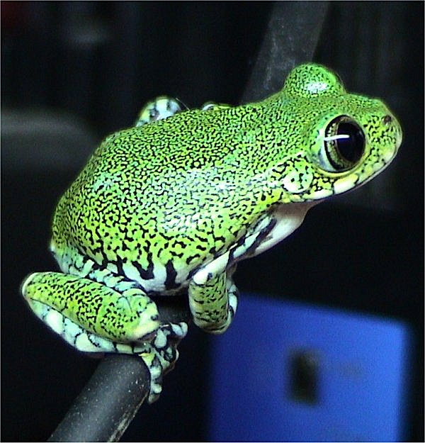 Photographer: User:Dawson Category:Frog images Commons:Category:Leptopelis vermiculatus